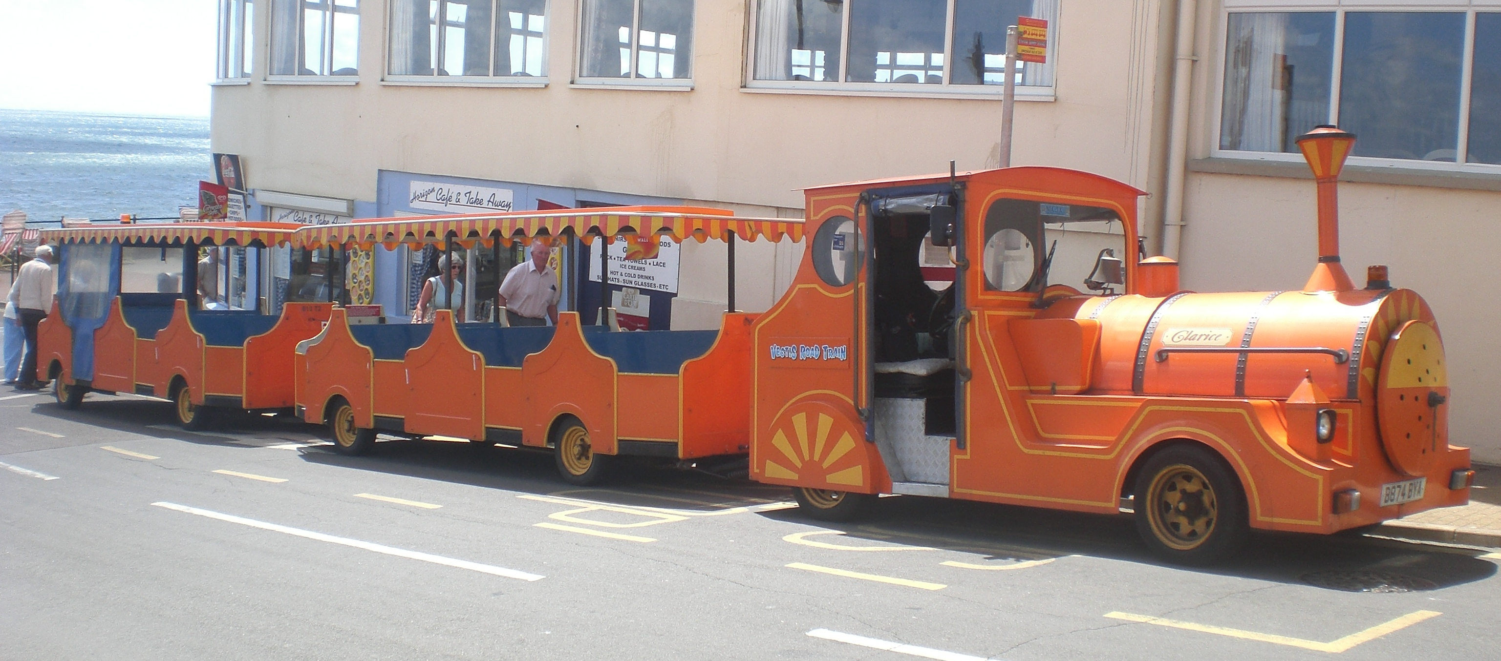 Southern Vectis 610 Clarice (B874 BYA), a Land Rover 90 engine/Road Runner body road train, new in 1985, which operates during the Summer timetable in Sandown. It is seen parked in Avenue Slipway in the town.